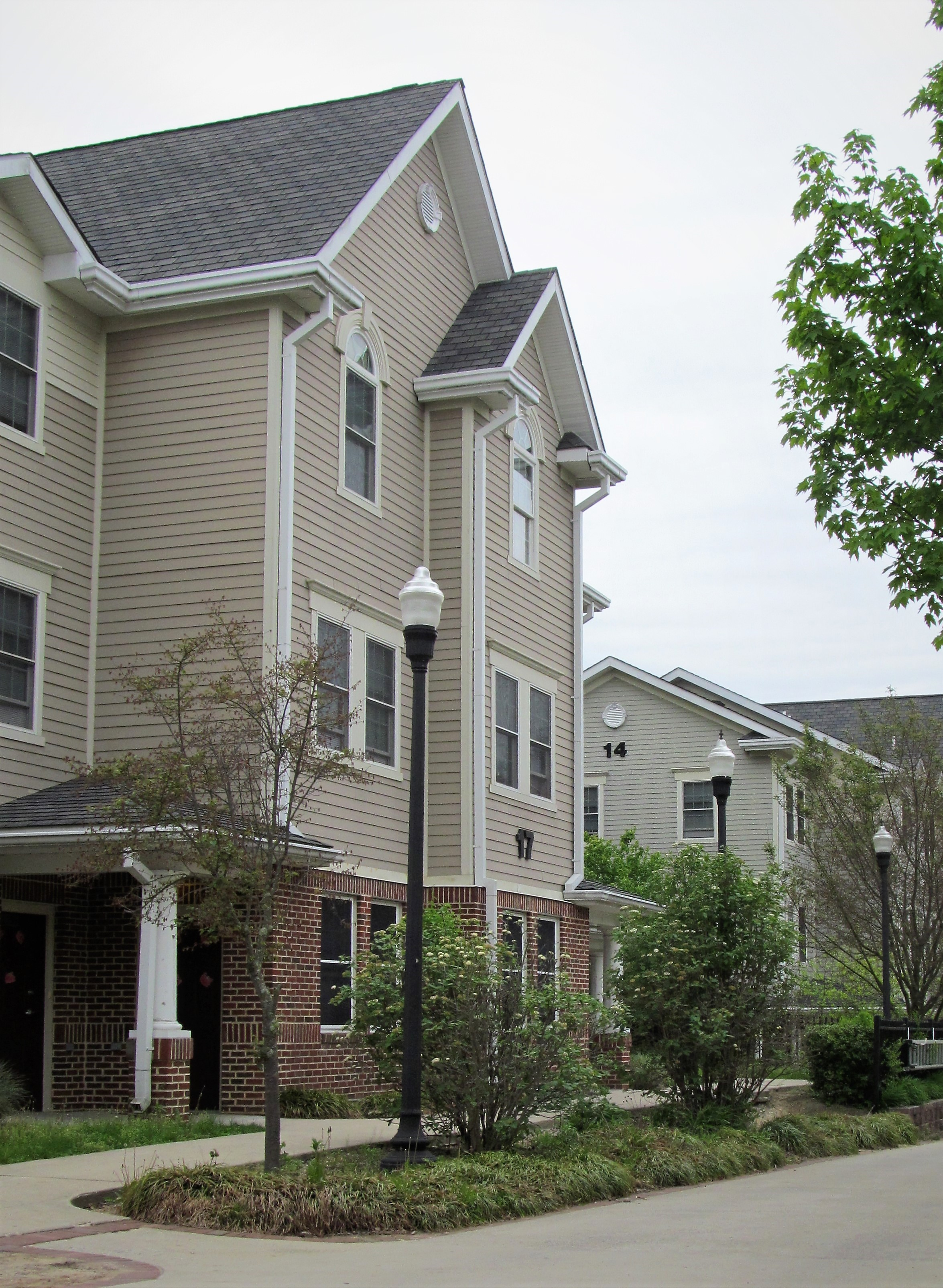 A picture of building 17 of the Townhouse Apartment complex at Rowan University.